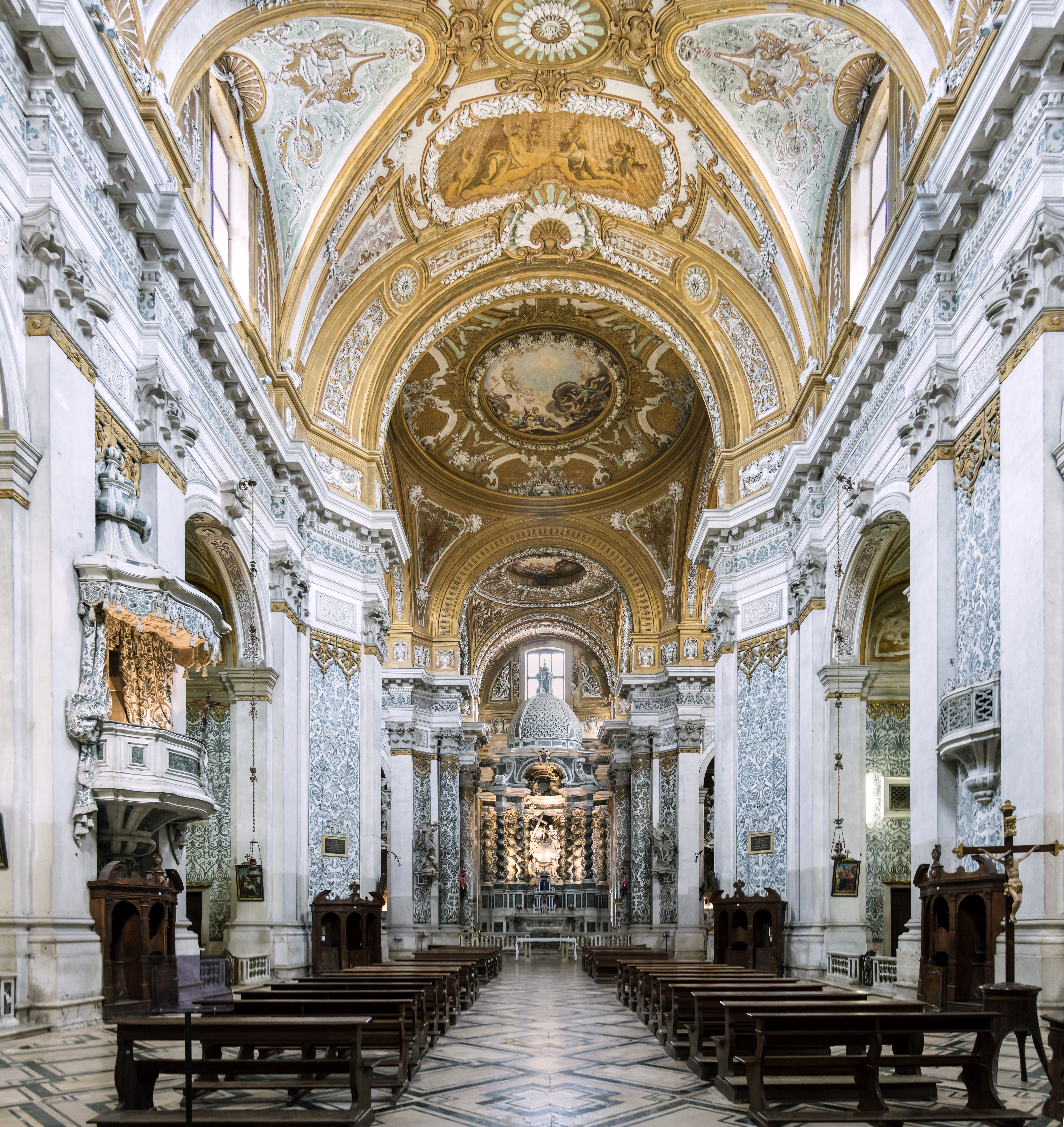 I Gesuiti, Venice inside